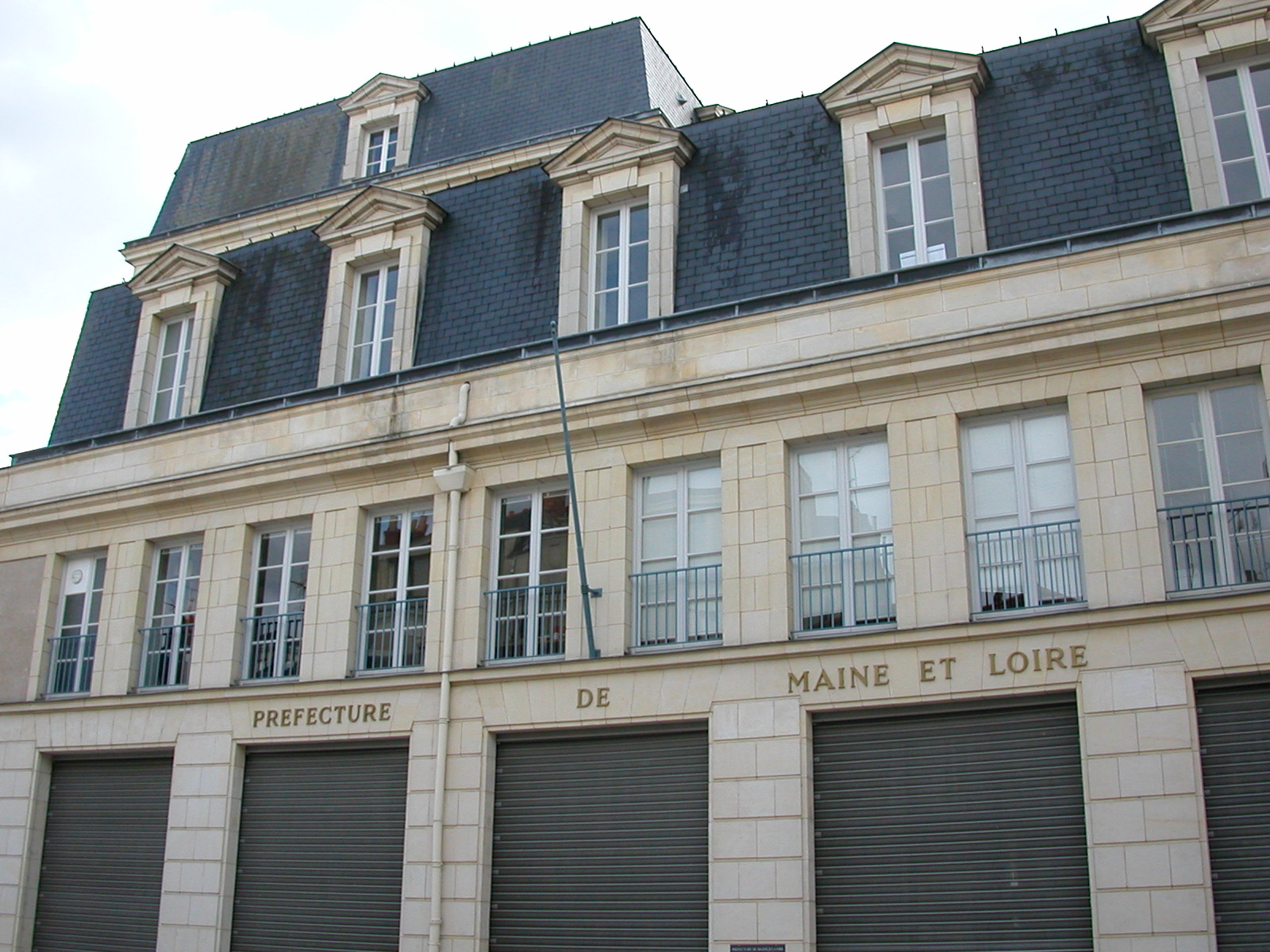 Prefecture of Maine-et-Loire in Angers